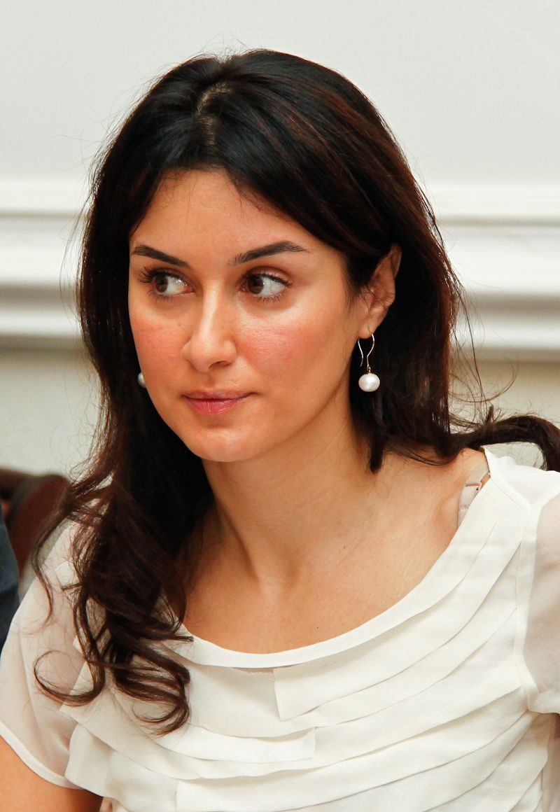 Tina Kandelaki).